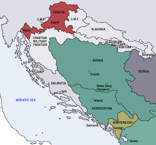 Map of the Kingdom of Croatia (red) in late 1867 and early 1868 (before the Croatian-Hungarian Nagodba and the establishment of the Kingdom of Croatia-Slavonia). The Kingdom of Slavonia sent it's MPs to the Croatian parliament; although it enjoyed greater political autonomy/independence, it was under Croatia's direct control for most of the existence of both Kingdoms. The map also shows the borders of the Military Frontier, which was under direct military jurisdiction. Territories which had Croatian aspirations (majority Croat areas and territories historically part of Croatia) are marked in gold.